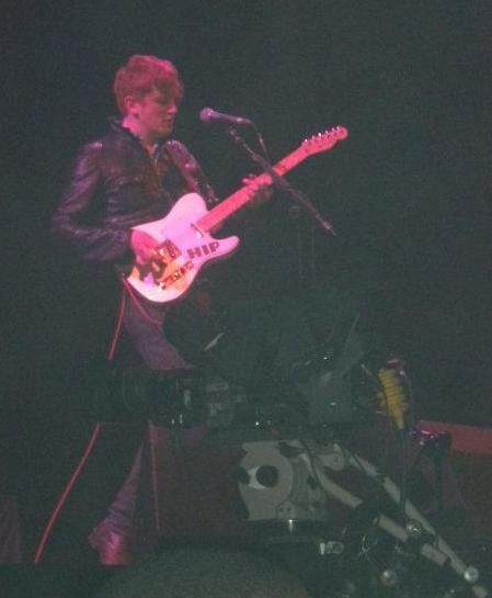 Hip Parade supporting Stereophonics at Wembely 2010